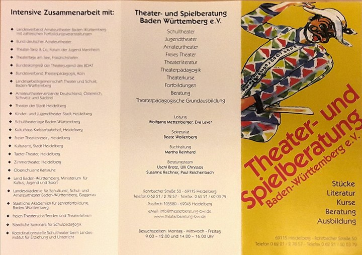 Old Flyer of TSB